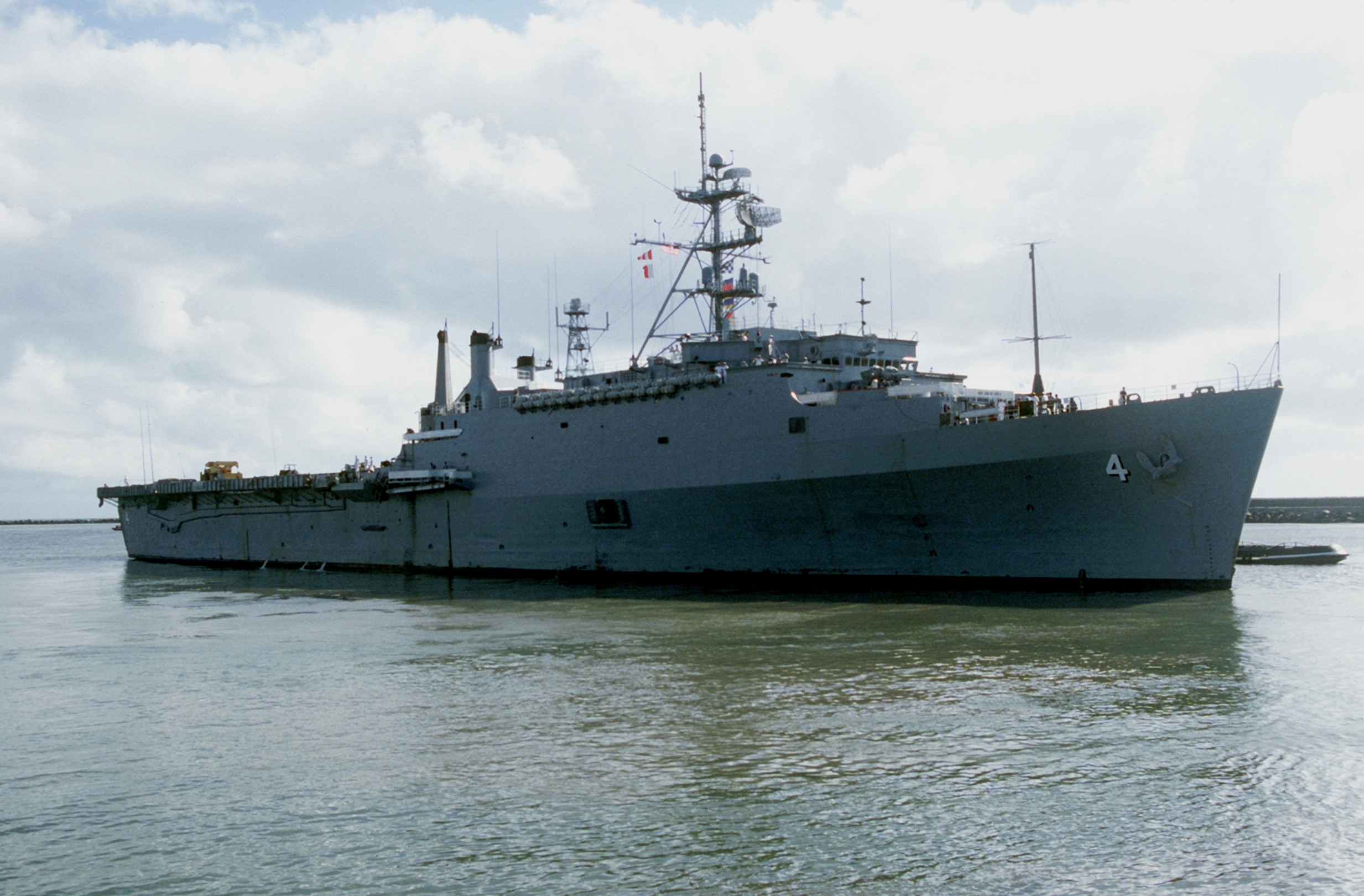 The U.S. Navy amphibious transport dock ship USS Austin (LPD-4) off the South American coast during Exercise Unitas XXIII.